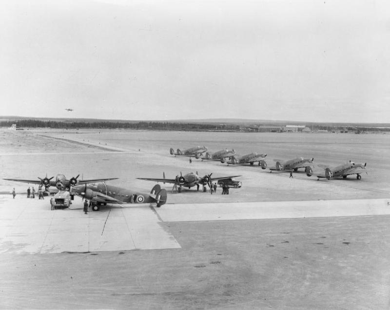 Royal Air Force Ferry Command, 1941-1943. Lockheed Hudson Mark IIIs are prepared for their trans-Atlantic ferry flights at Gander, Newfoundland. At left, one is being refuelled for the journey while two aircraft facing the camera undergo engine checks. Five aircraft facing the runway are ready for the flight and a final Hudson can be seen about to land after flying from the main Ferry Command airport at Dorval, Ontario.